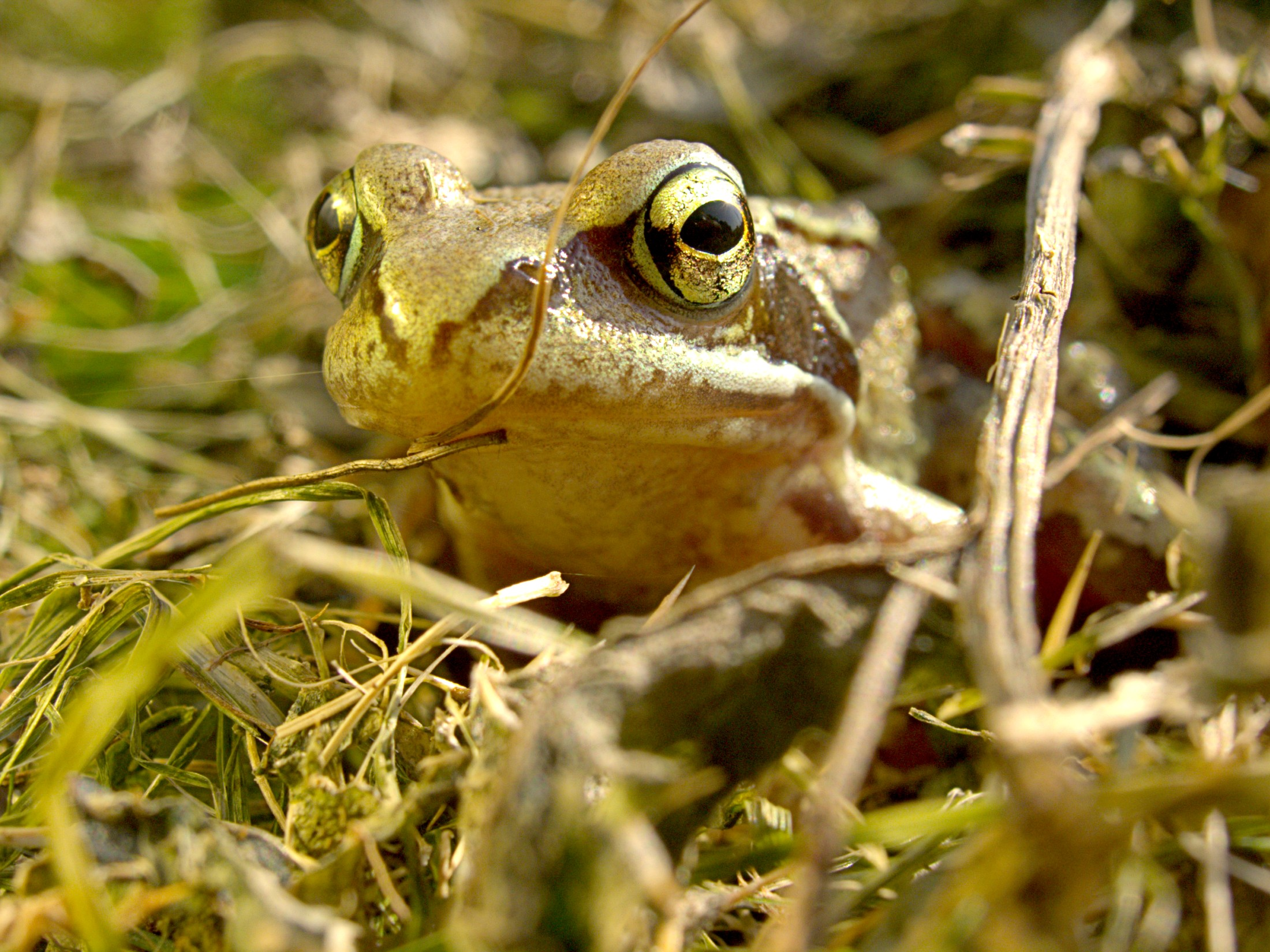 Name: Rana temporaria. Family: Ranidae. Location: Münster, NRW, Germany